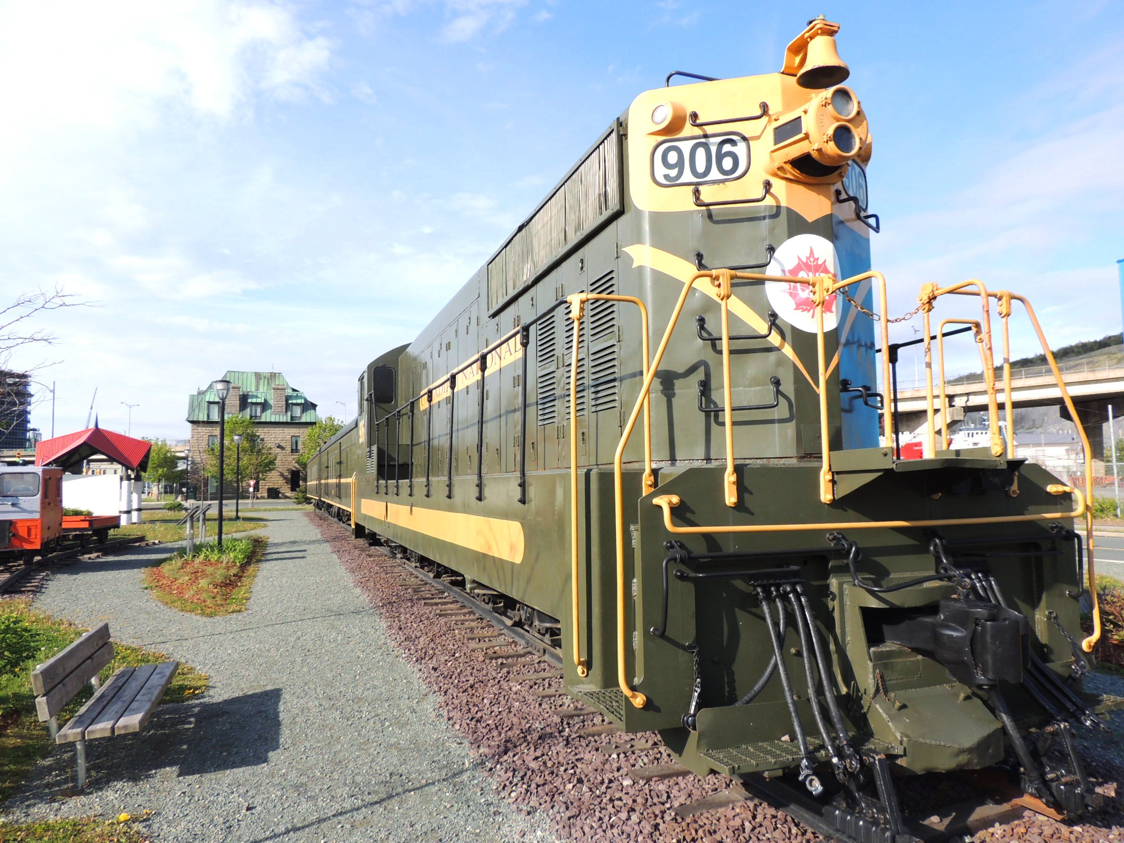 Narrow gauge NF-110 locomotive 906 and passenger cars of the former CN Railway at the Railway Coastal Museum in St. John's, NL. This is the eastern terminus of the Newfoundland T'Railway and the Trans Canada Trail pavilion can been seen in the background.